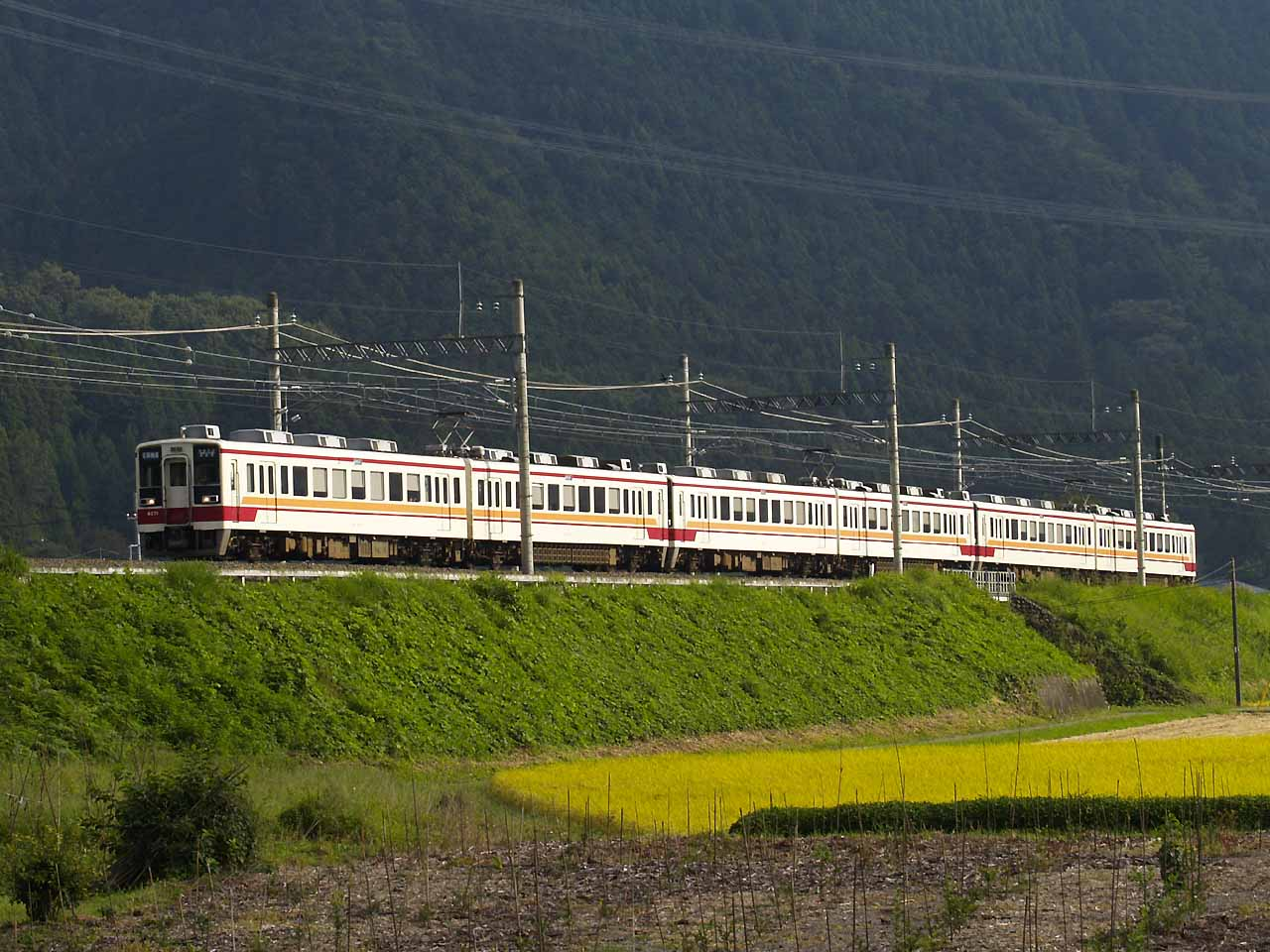 Tobu Railways series 6050 EMU crimbing embankment at Itaga, Kanuma city, Tochigi Japan. Formation: 6171F-6163F-6162F